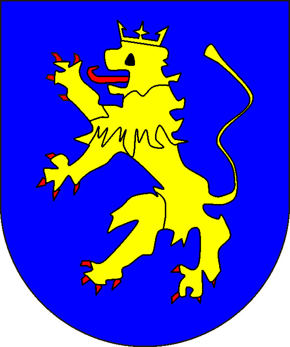 coats of arms of the lordship of Jever